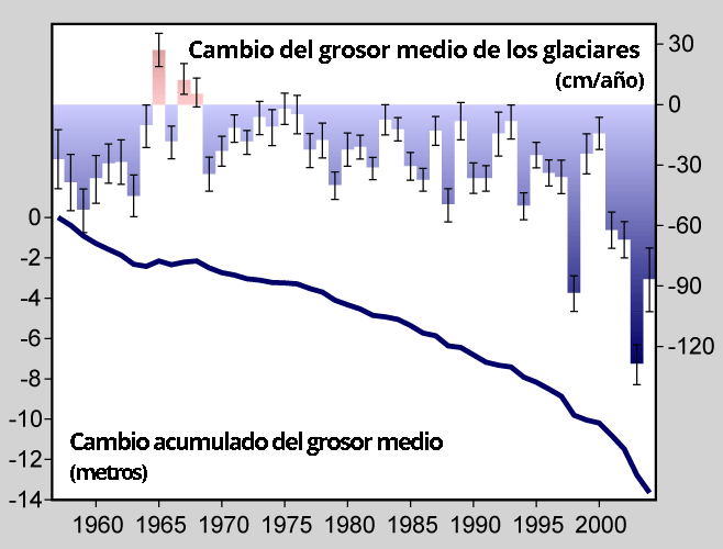 average rate of thickness change in mountain glaciers around the world, in Spanish